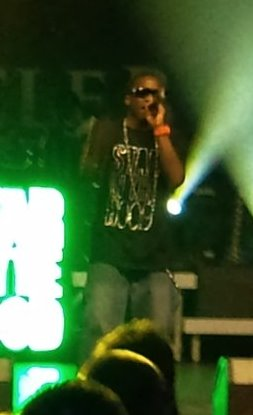 Tinchy Stryder supporting Maj Cameron on his tour, April 28, 2009 at the Ipswich Regent Theatre.